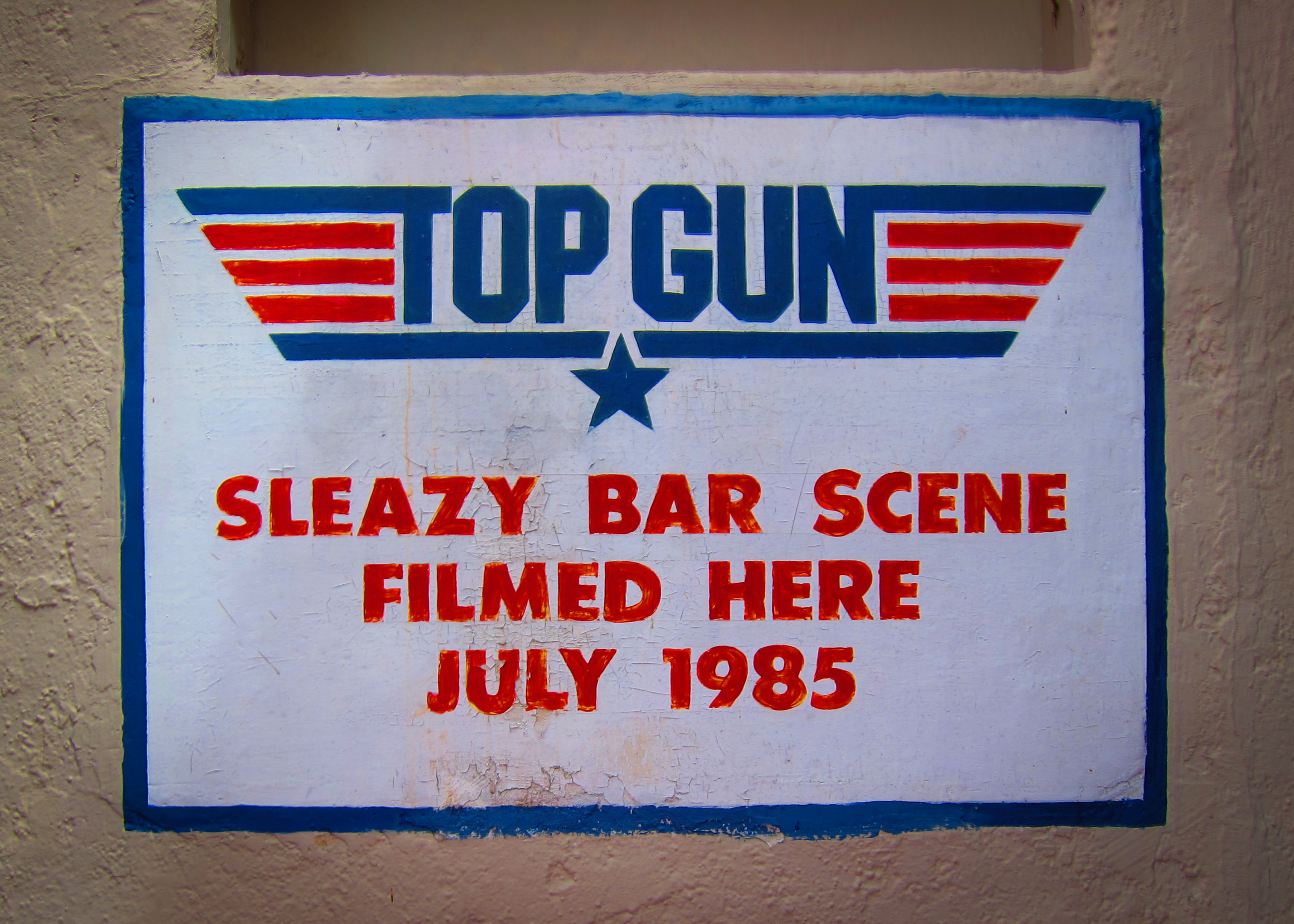 Location for the sleazy bar scene where Tom Cruise, Meg Ryan, and Anthony Edwards sing "Great Balls of Fire."